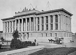 Horse tram in front of National archives of Finland in 1896